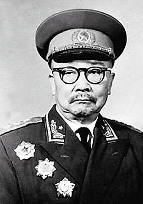 毛泽东曾说过:“李克农是中国的大特务，只不过是共产党的特务。”这是对被誉为“特务王”的李克农的最好评价。李克农是中共情报和特务机关的首脑，他为党的事业做出了巨大贡献，是我党长期以来战斗在隐蔽战线上的英雄人物。